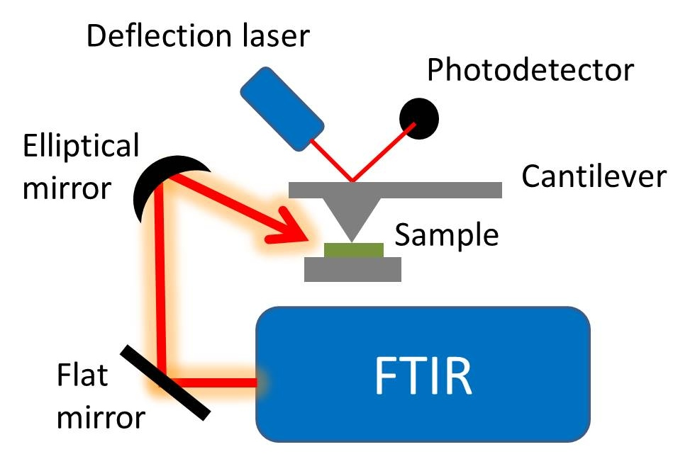 Schematic diagram of the apparatus used in atomic force microscopy infrared spectroscopy.